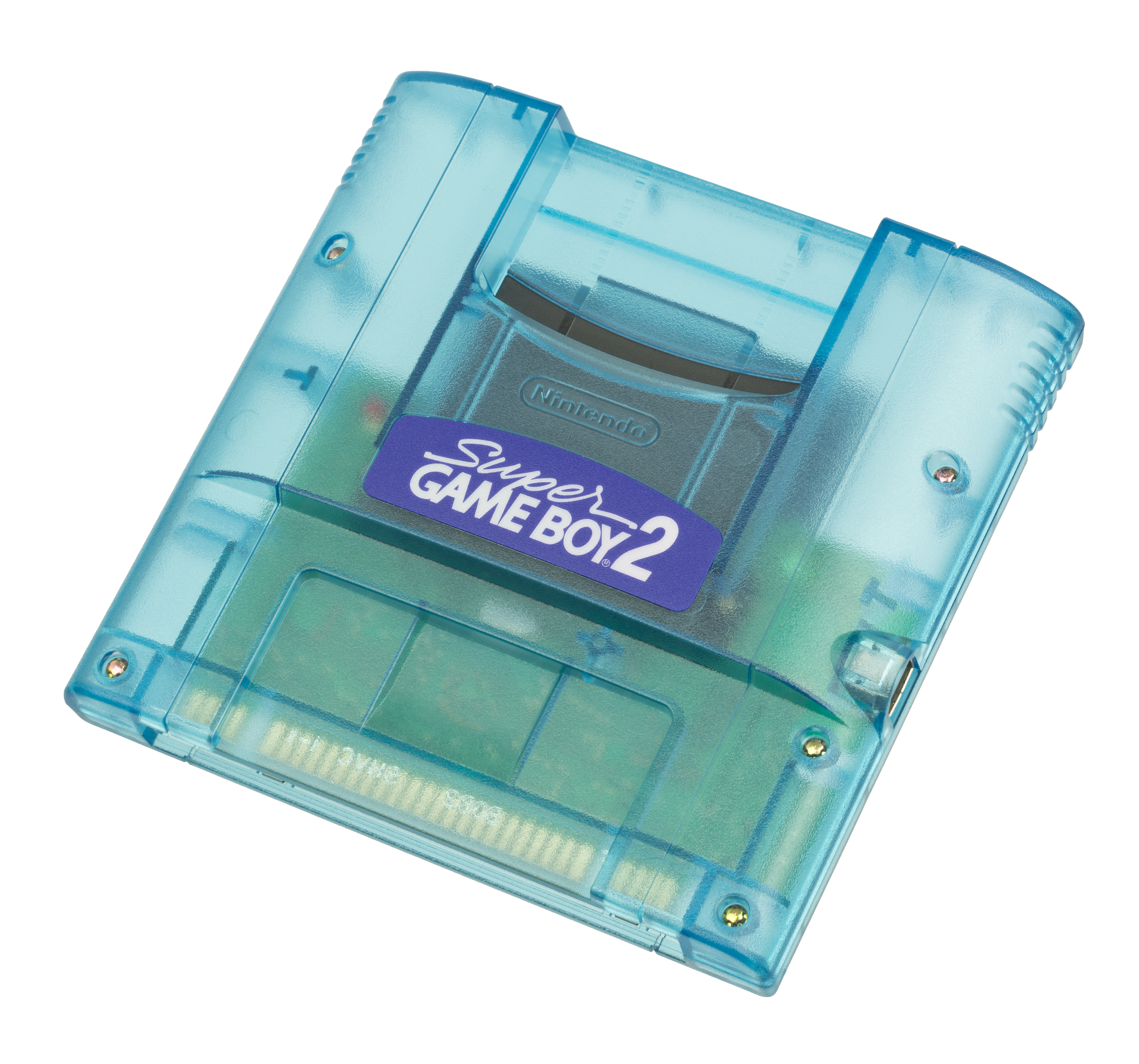 The Super Game Boy 2 for the Super Famicom video game console. Developed and released by Nintendo as a way to play Game Boy games on your television, the Super Game Boy 2 is a minor upgrade over the previous version, mainly adding a link cable to the adapter.